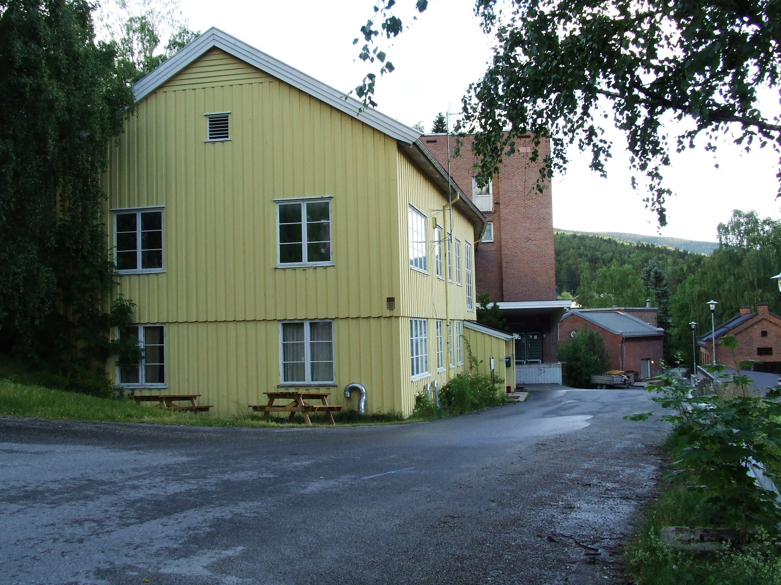 Photo of the old Chancery building, a building formerly used by the Solberg Spinderi company in Solbergelva, Norway.